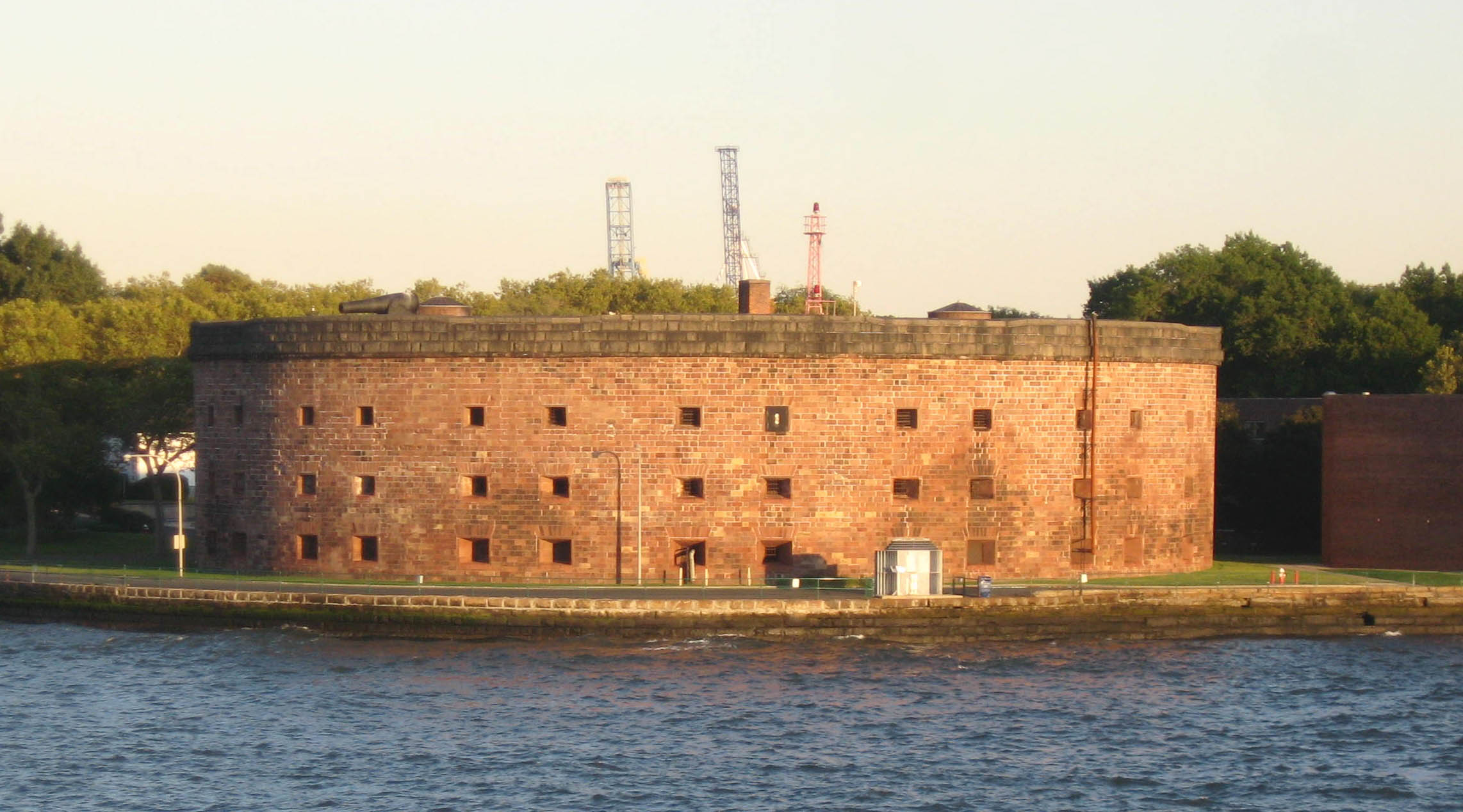 Looking southeast at Castle Williams from Staten Island Ferry very late on a sunny afternoon